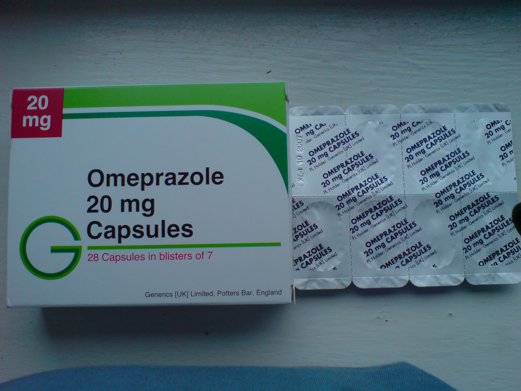 Omeprazole 20mg (UK)